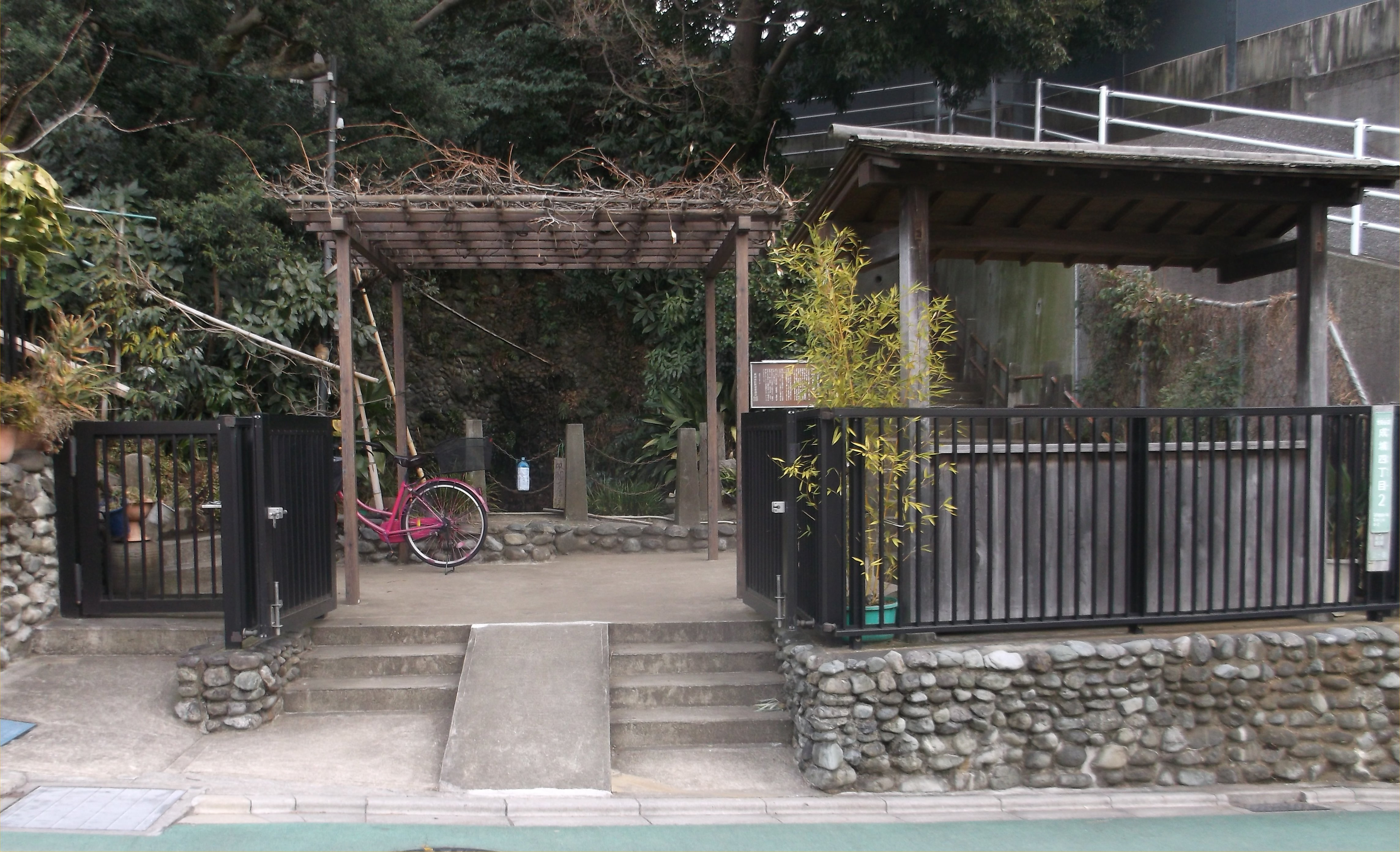 A photo of the entrance of Kitami Fudodo,Seijo,Setagaya-ku,Tokyo,Japan.